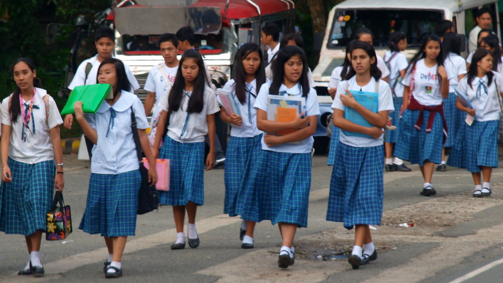 Students in the Philippines